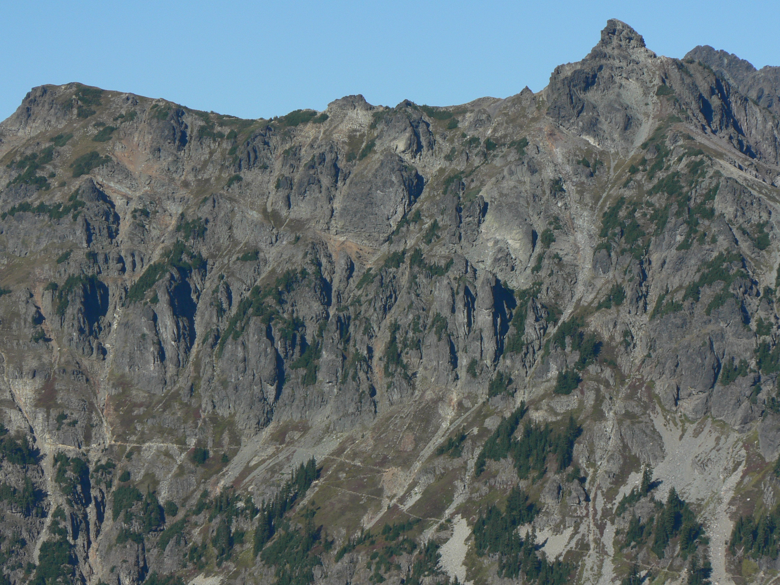 Pacific Crest Trail crossing the southwest face of Chikamin Peak (6960 feet, upper right)